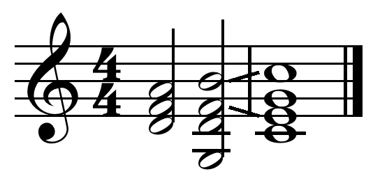 ii-V-I turnaround in C.